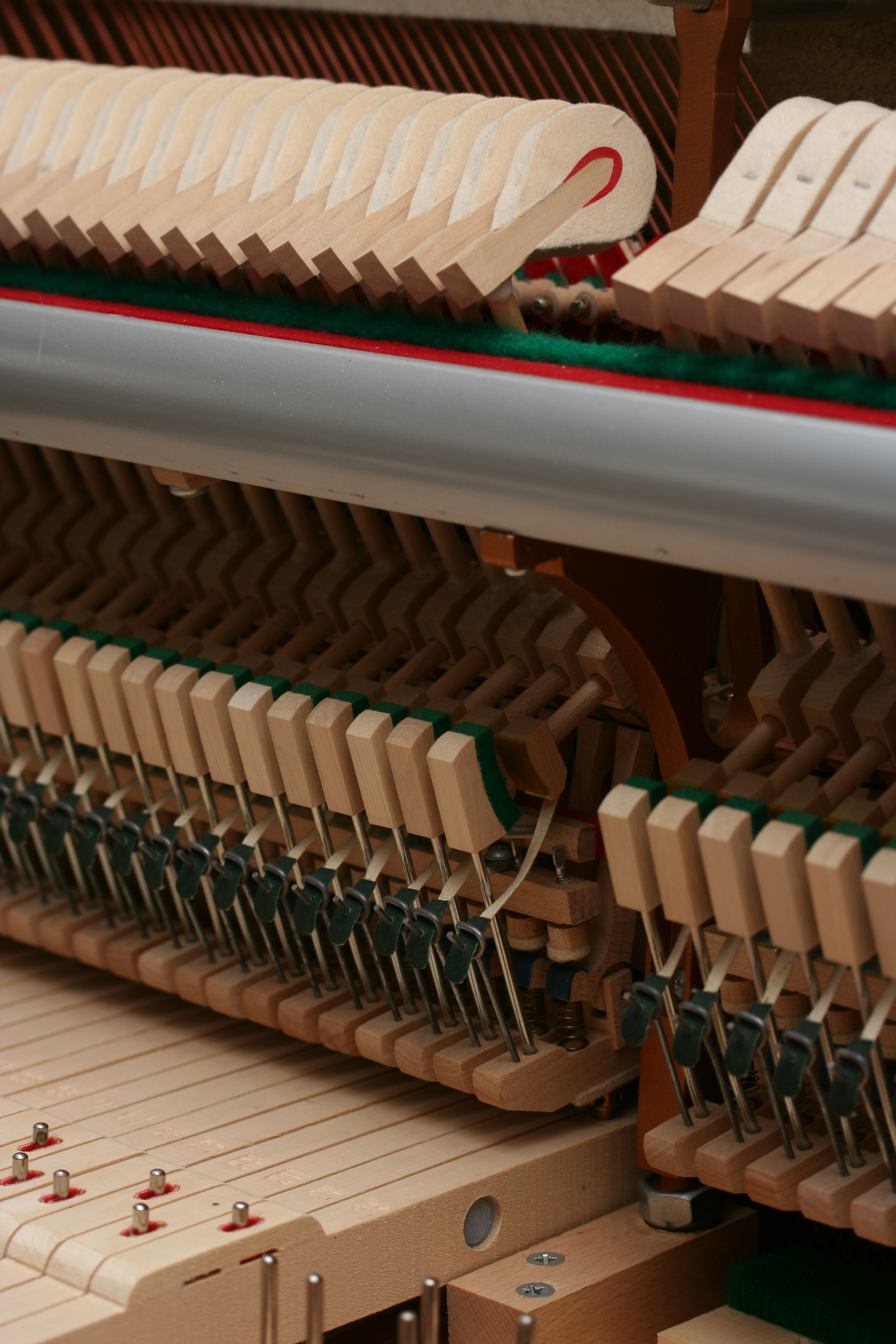 The mechanism of an upright piano